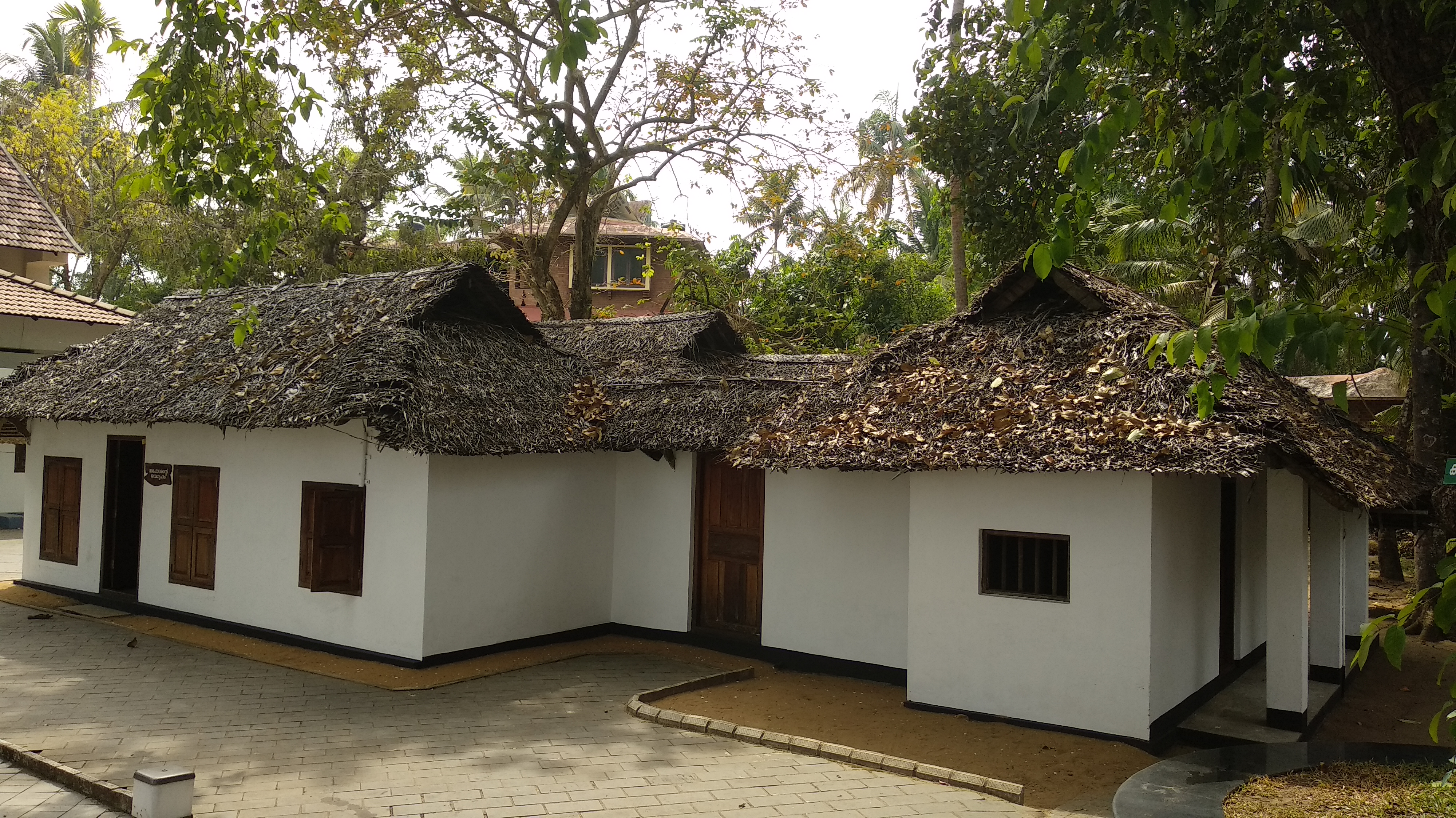 Sahodaran Ayyappan smarakam